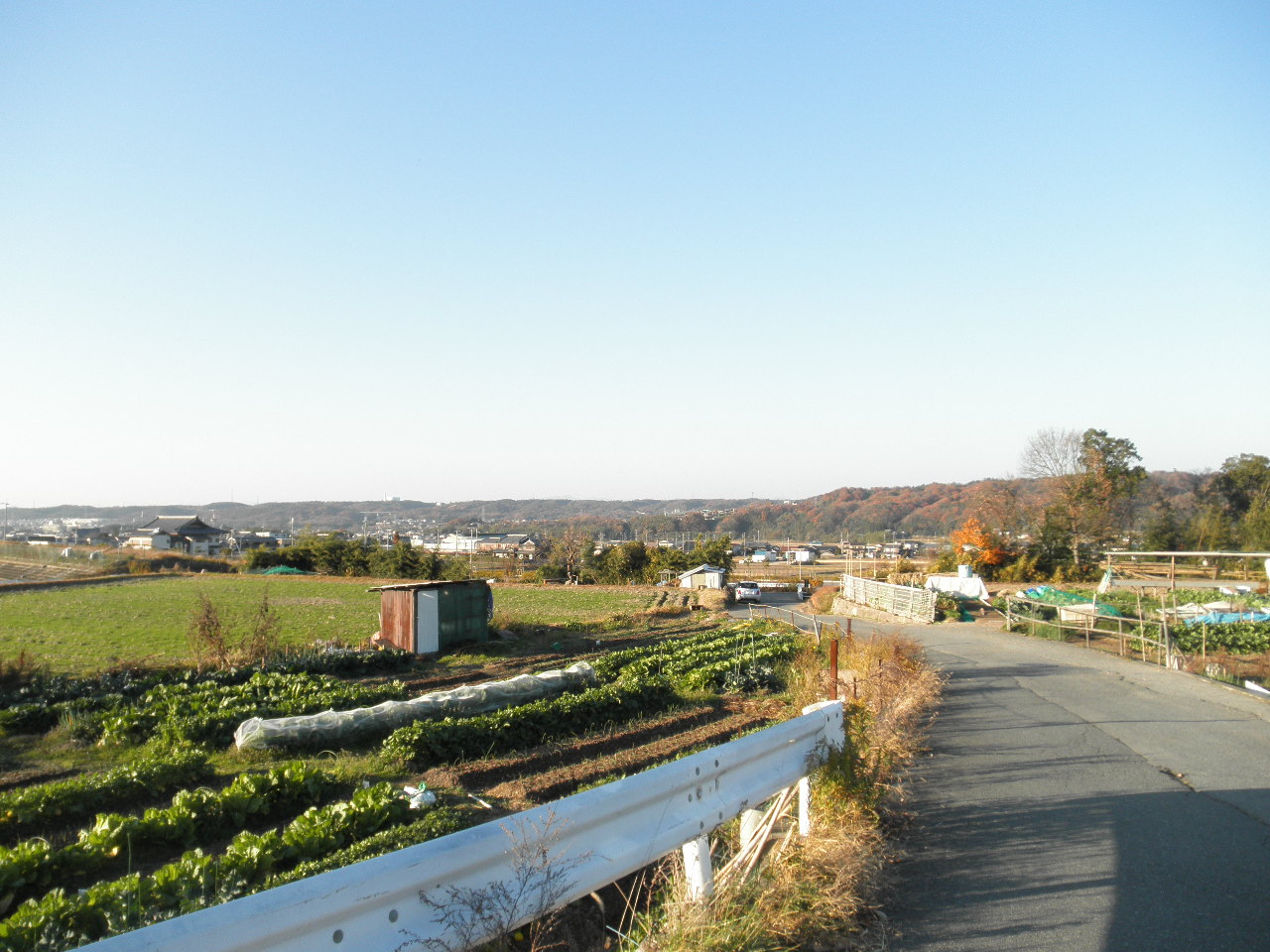 Shijimitown Yoshida Mikicity Hyogopref